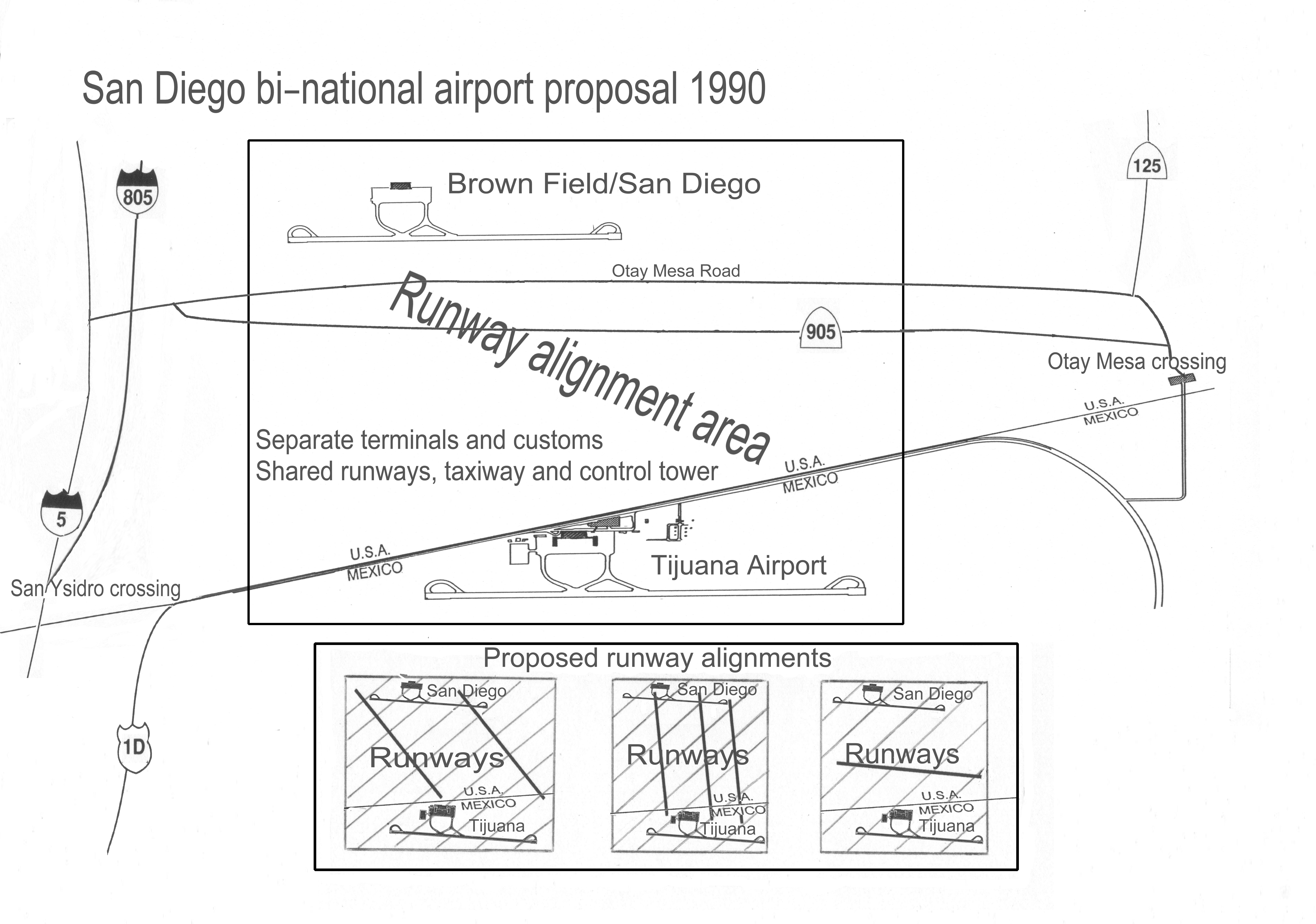 This image shows the basic configuration of the San Diego-Tijuana bi-national airport proposed in 1990